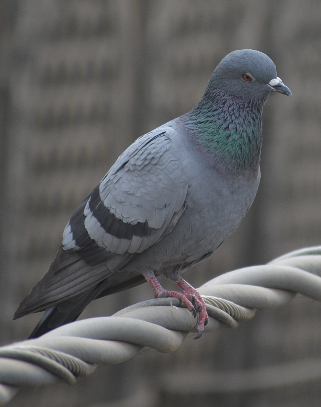 Pigeon perched upon high voltage semi-insulated cable